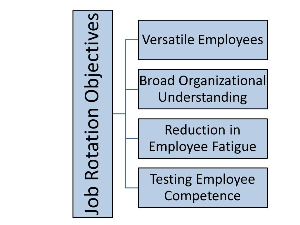 Job Rotation Objective Chart